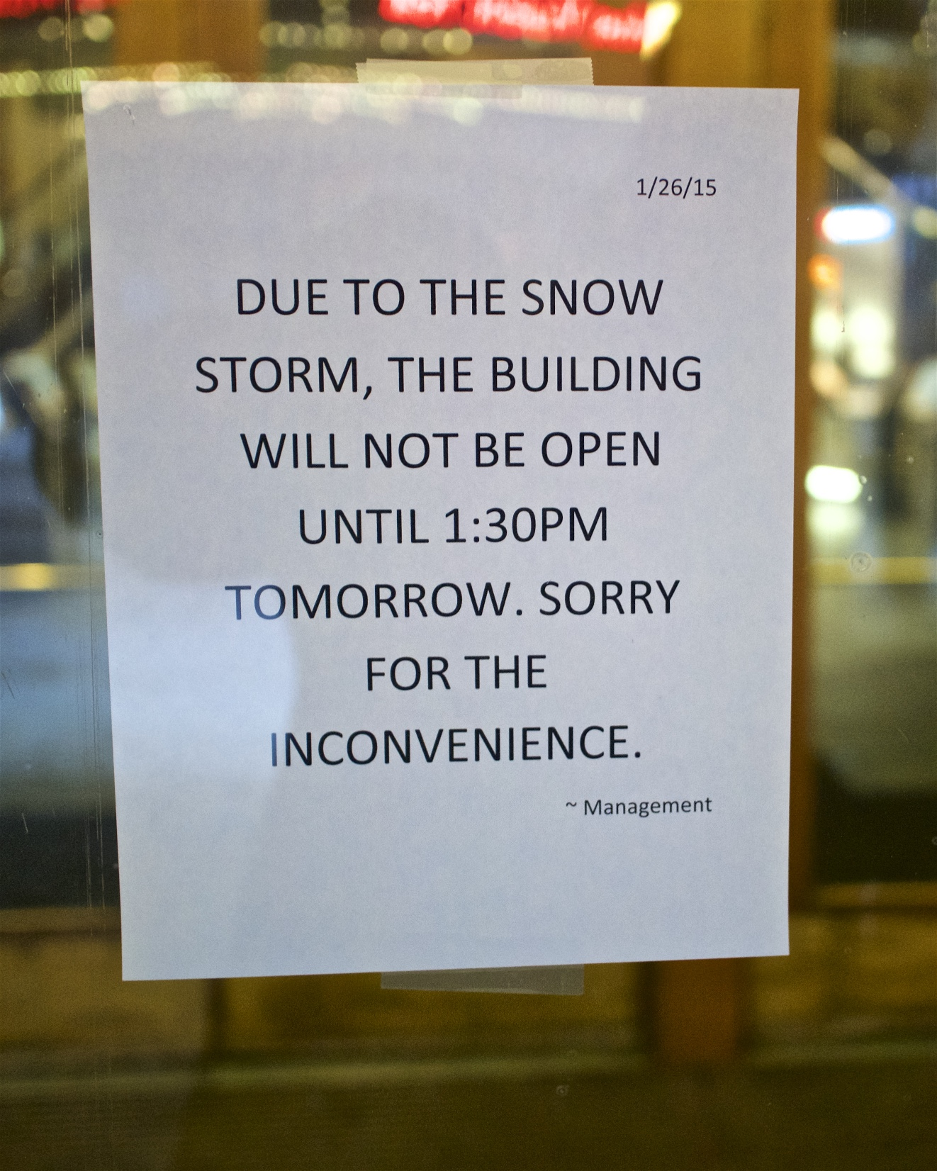 A sign outside the AMC Empire 25 movie theater in Times Square, New York City, advising visitors that the theater has been preemptively closed in advance of impending Winter Storm Juno, January 26, 2015.